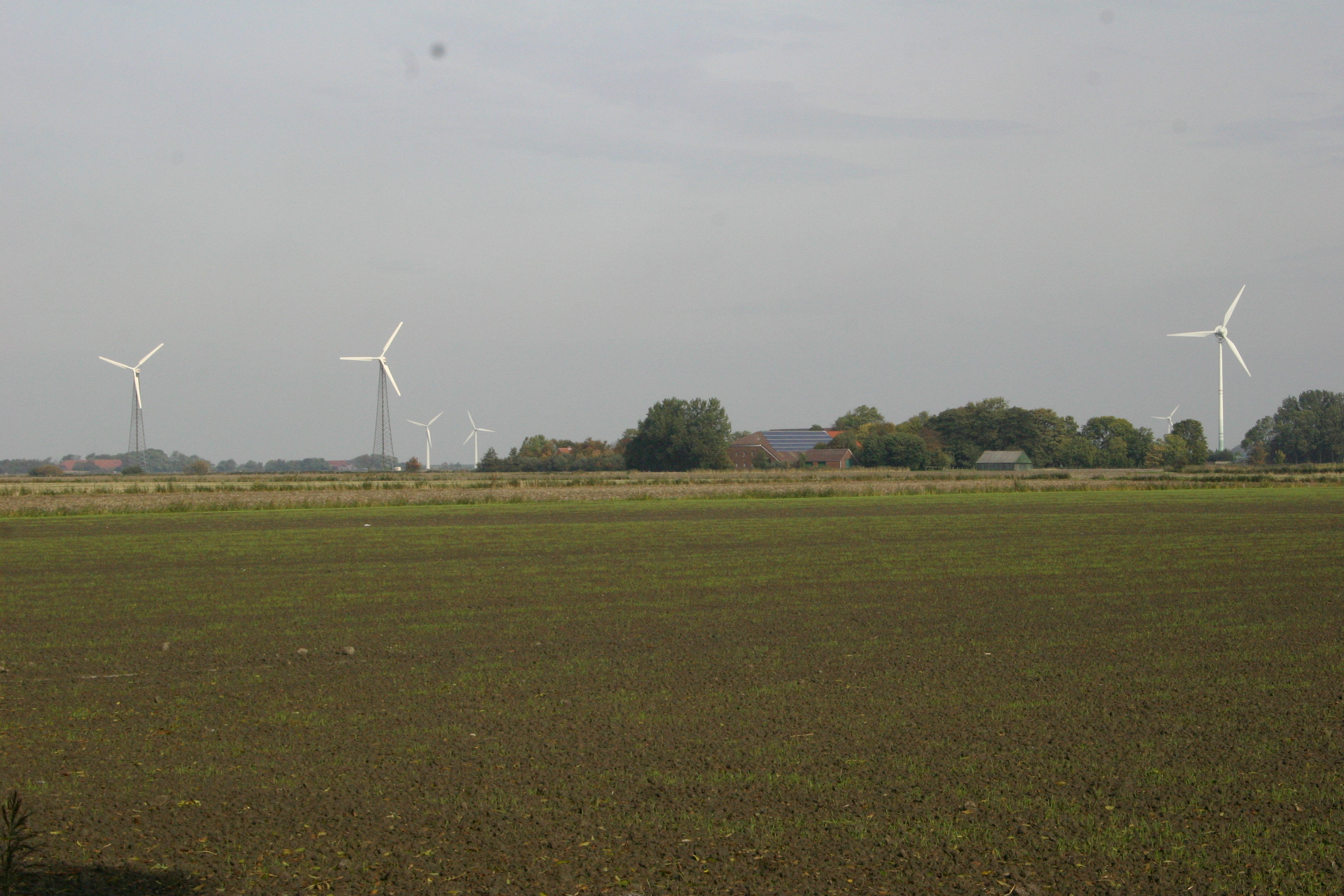 Farmhouse with photovoltaic elements on its roof together with modern-day windmills in Hagermarsch, East Frisia, Germany